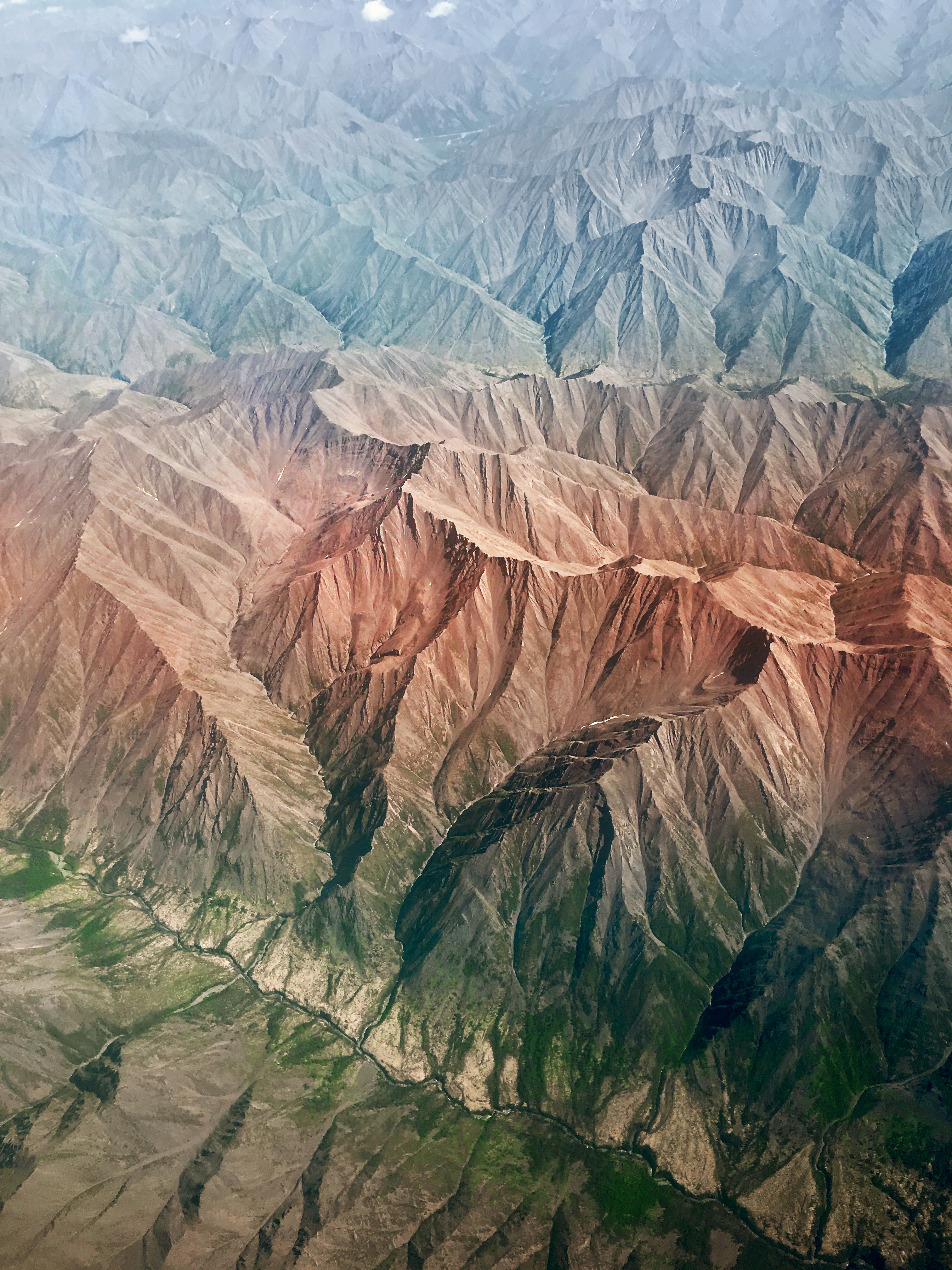 The Verkhoyansk mountain ridge in Yakutia, Russia. The image was taken from a window seat of an Antonov An-24RV high up in the air between Yakutsk and Chokurdakh in Eastern Siberia, Russia. Credit: Simone Stuenzi (distributed via ).